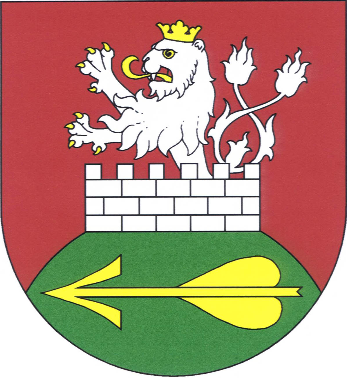 Municipal coat of arms of Bezděz village, Česká Lípa District, Czech Republic.